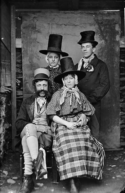 1 negative : glass, wet collodion, b&w ; 11 x 18 cm.